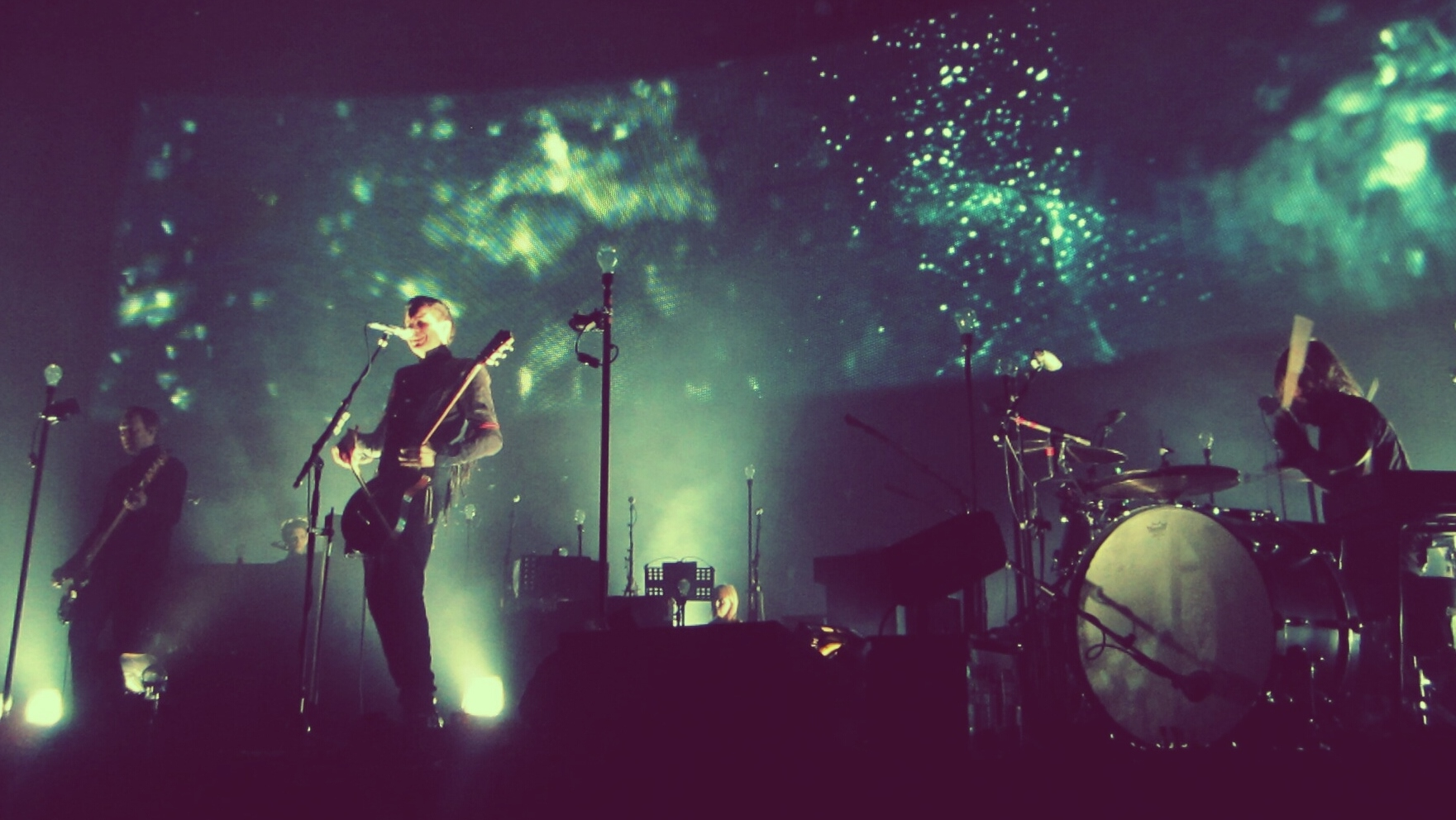 Sigur Rós performing at the Heineken Music Hall in Amsterdam on 28 February 2013. From left to right: Georg Hólm, Jónsi and Orri Páll Dýrason.